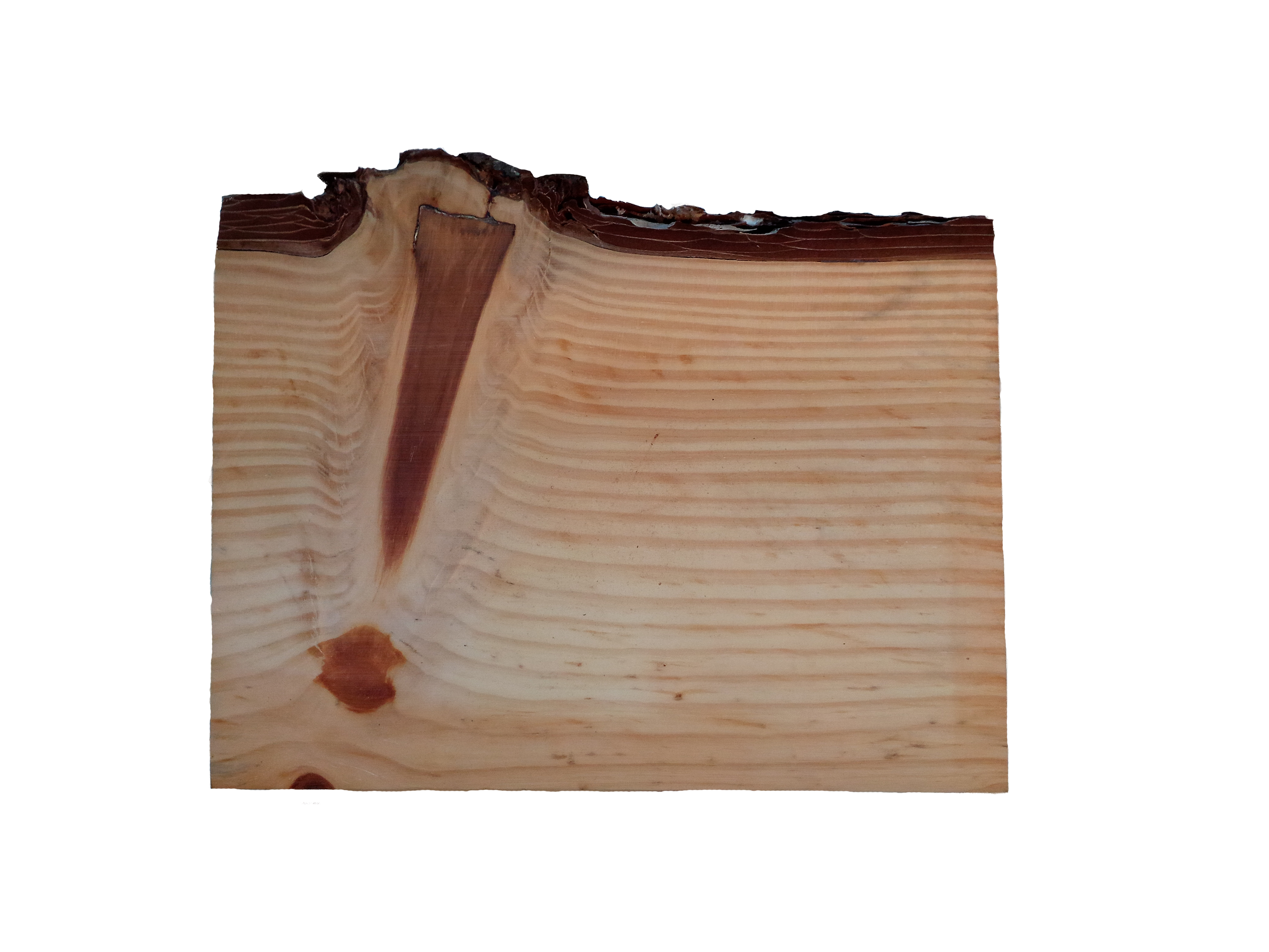 CODIT successful foreclosure